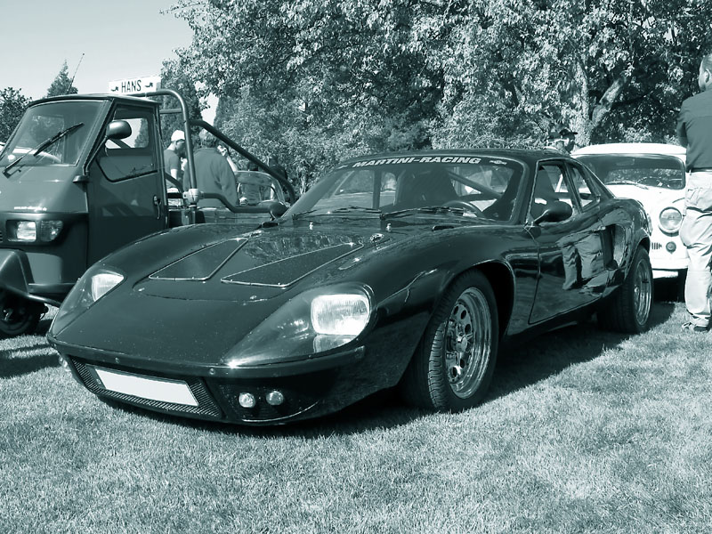 Front view of a Fiberfab Bonito FT, built in 1971.